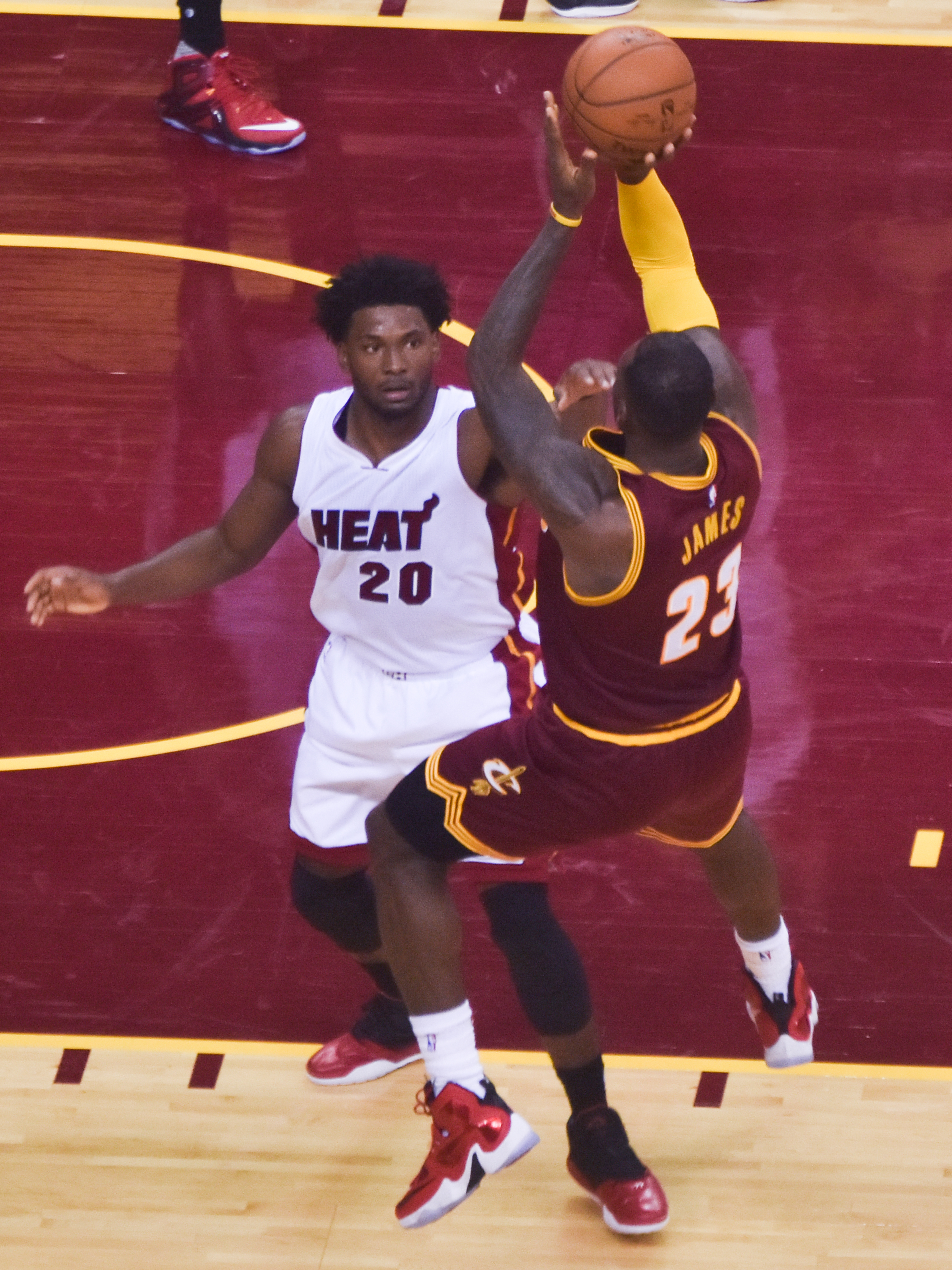 Justise Winslow of the Miami Heat defending LeBron James of the Cleveland Cavaliers